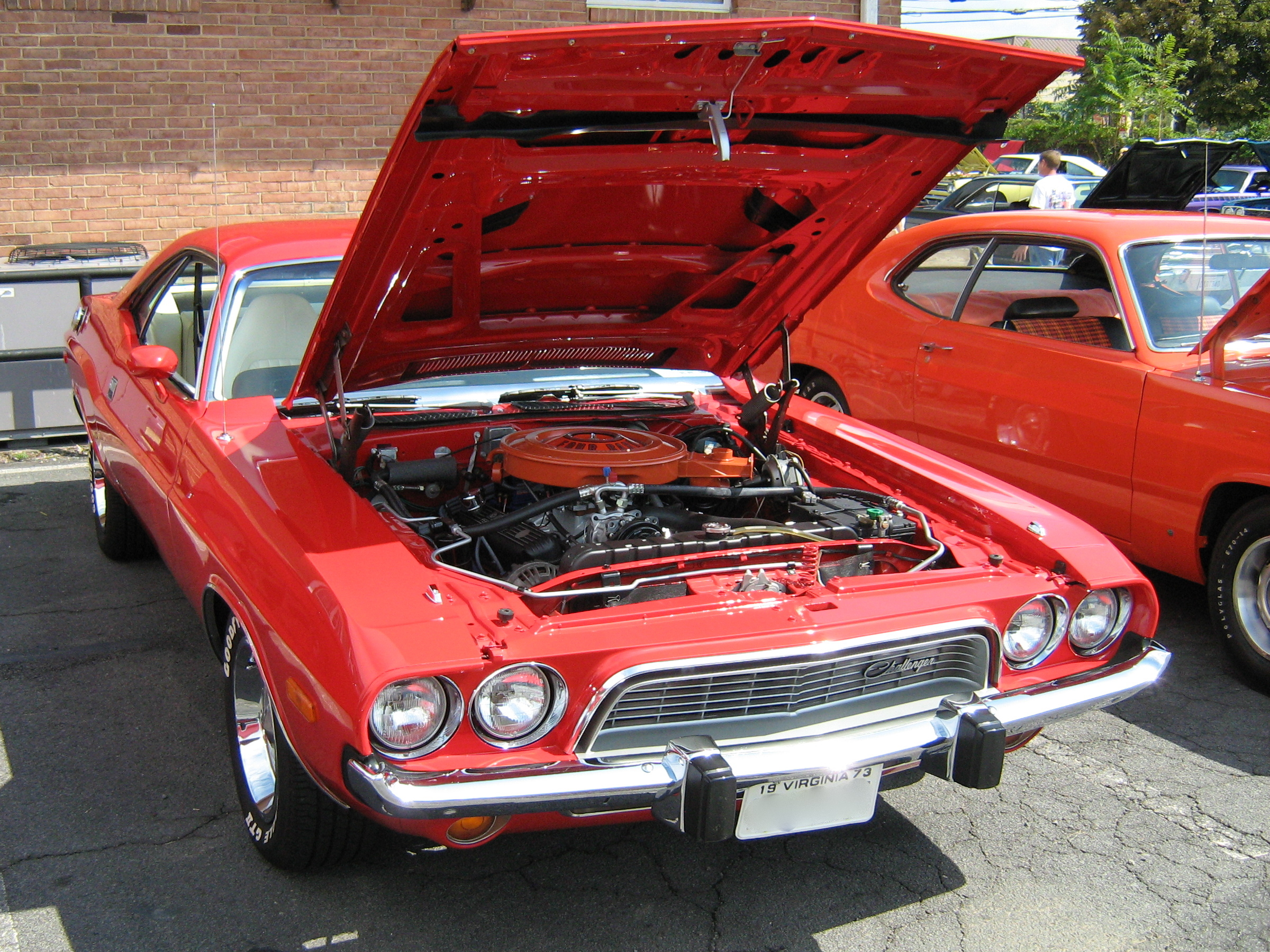 1973 Dodge Challenger coupe - front view.